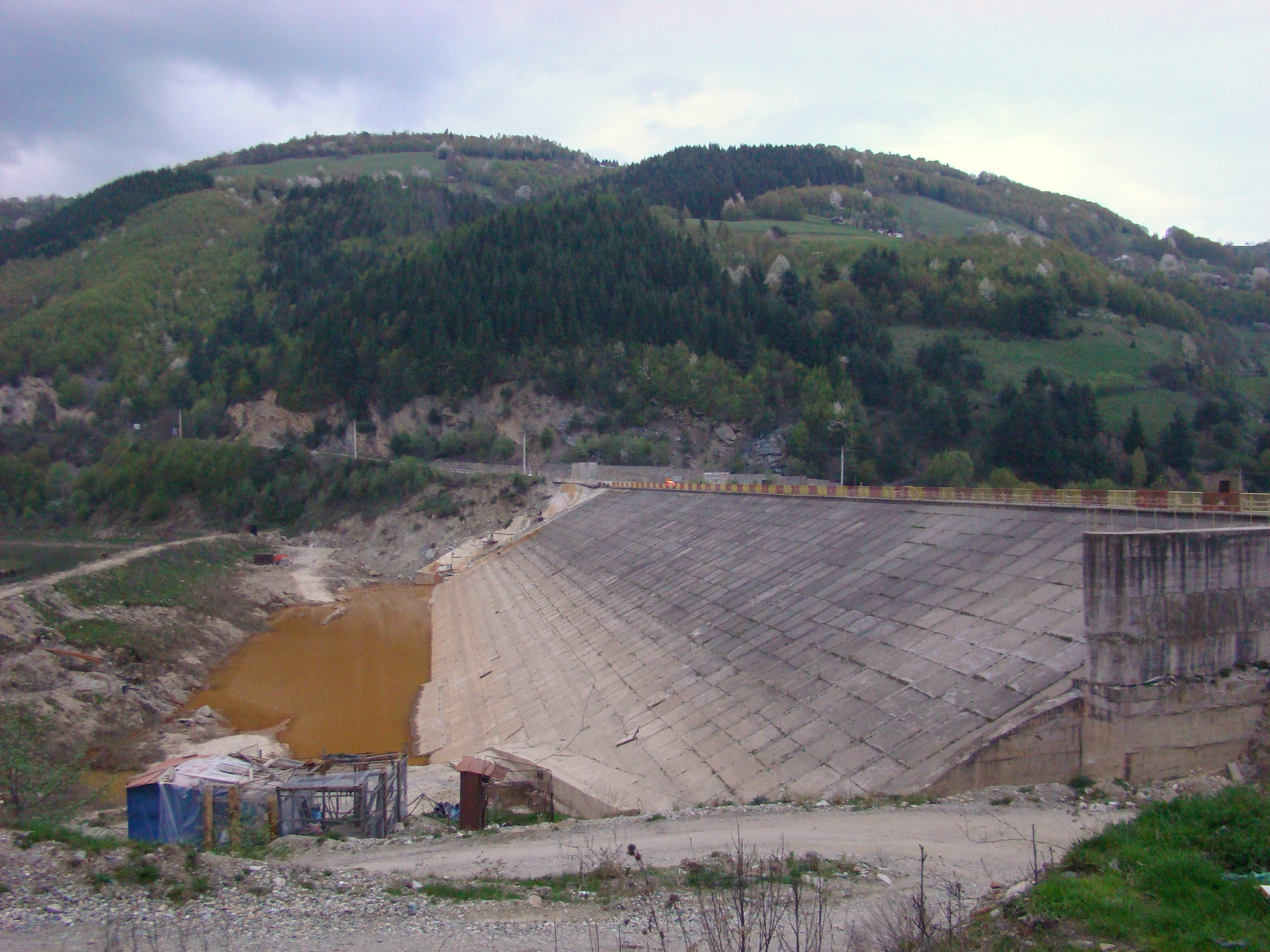 Mihoiești dam